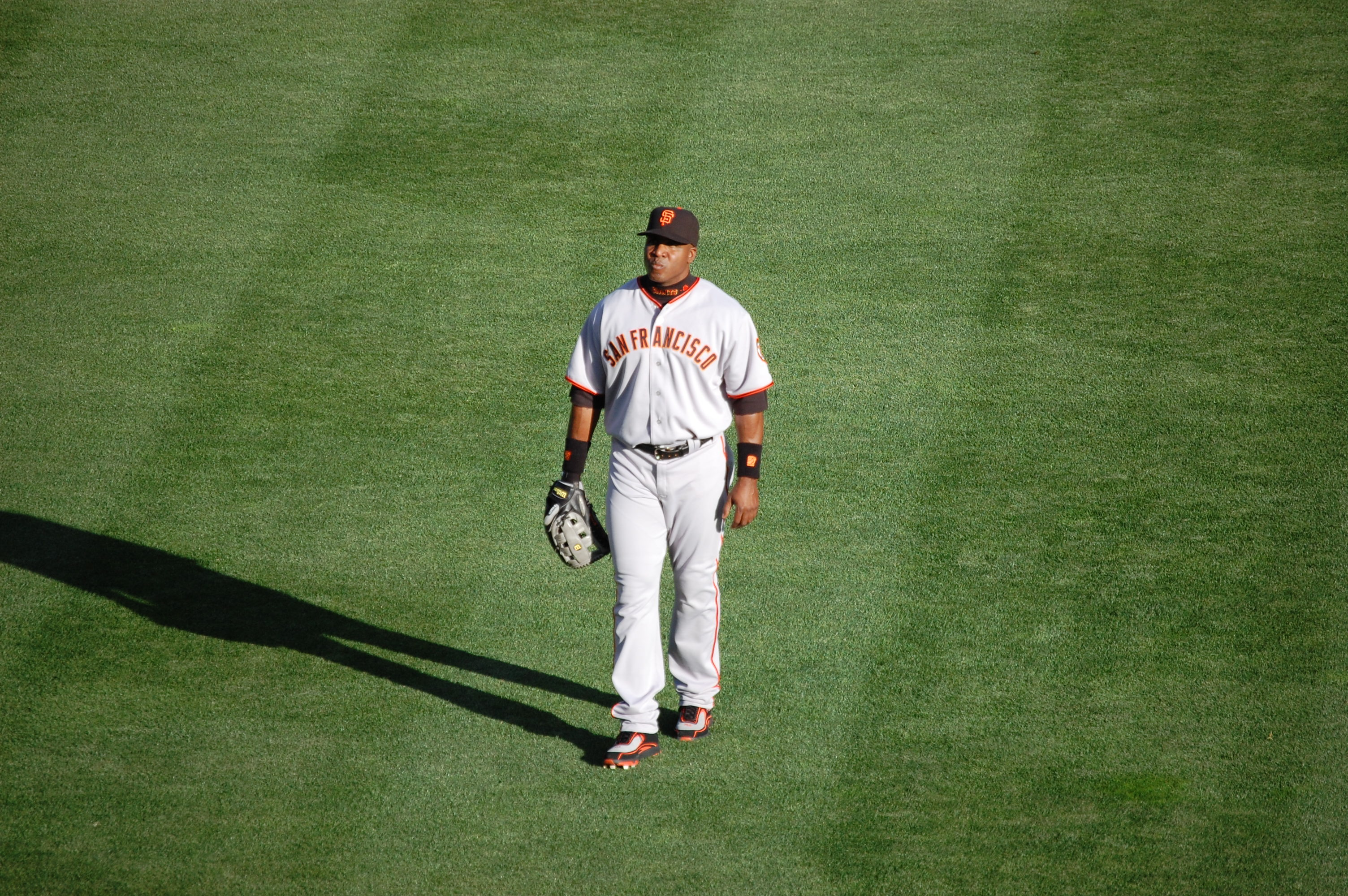 my own shot; release under gfdl 19:55, 13 May 2007 . . Onetwo1 . . 3008×2000 (1.5 MB)